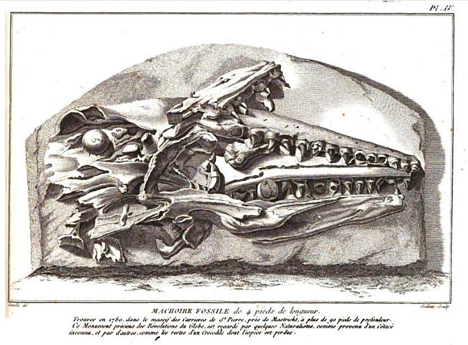 The second Mosasaurus discovery (1770s) known as "le grand animal" in Mount St. Peter, Maastricht, according to Faujas de Saint-Fond